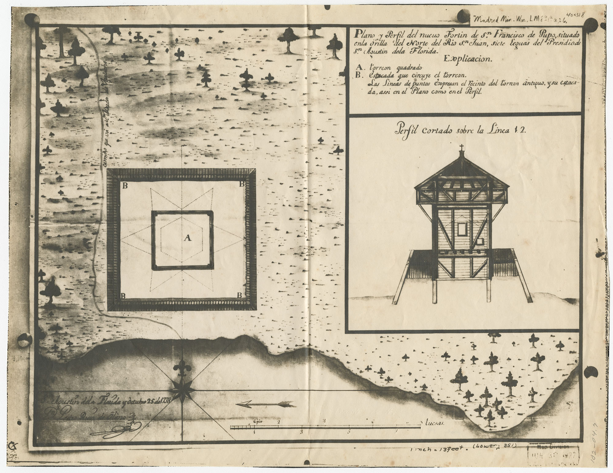 Plano y Perfil del nuevo Fortín de San Francisco de Pupo Plan and Profile of the New Fort Fort de San Francisco de Pupo